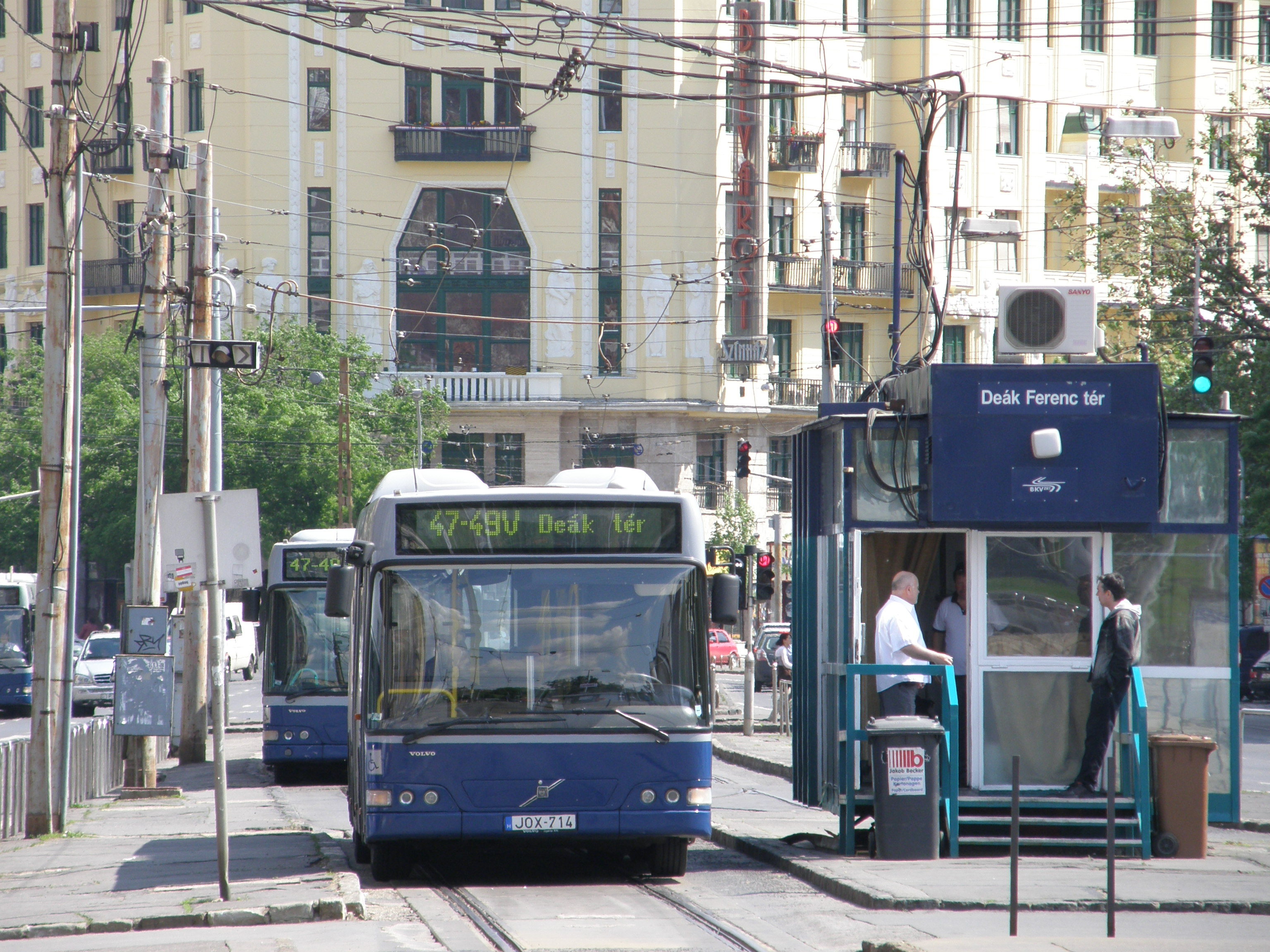 Volvo 7700A bus in Budapest, Hungary. Year built 2001.